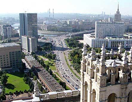 A view of Presnensky District (near) and Dorogomilovo district (behind Moskva River) from Kudrinskaya square skyscraper Left: US Embassy, far left: Comecon building Right: White House of Russia, far right behind it: Ukraina hotel